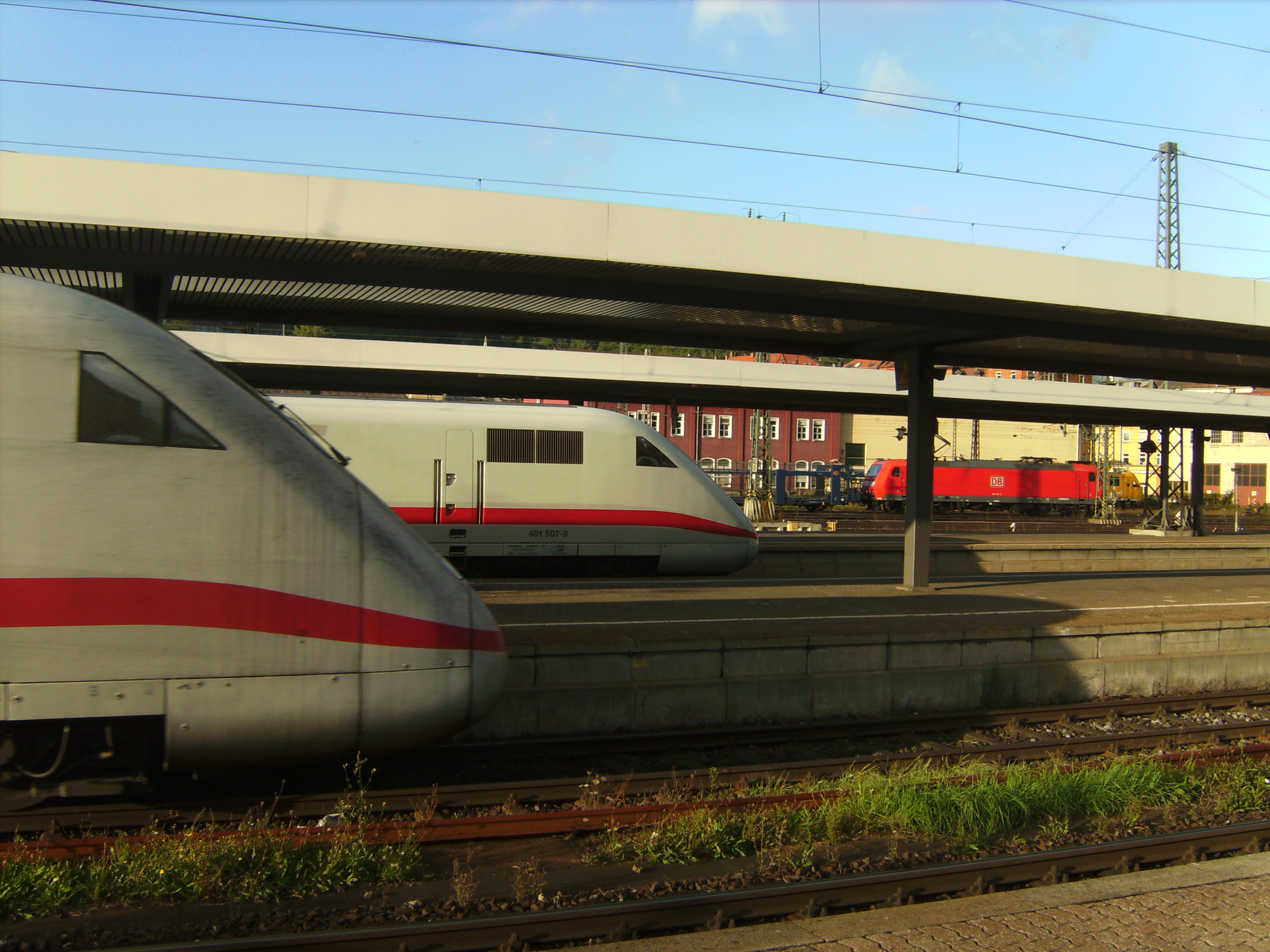 Two ICE-trains in Würzburg main station